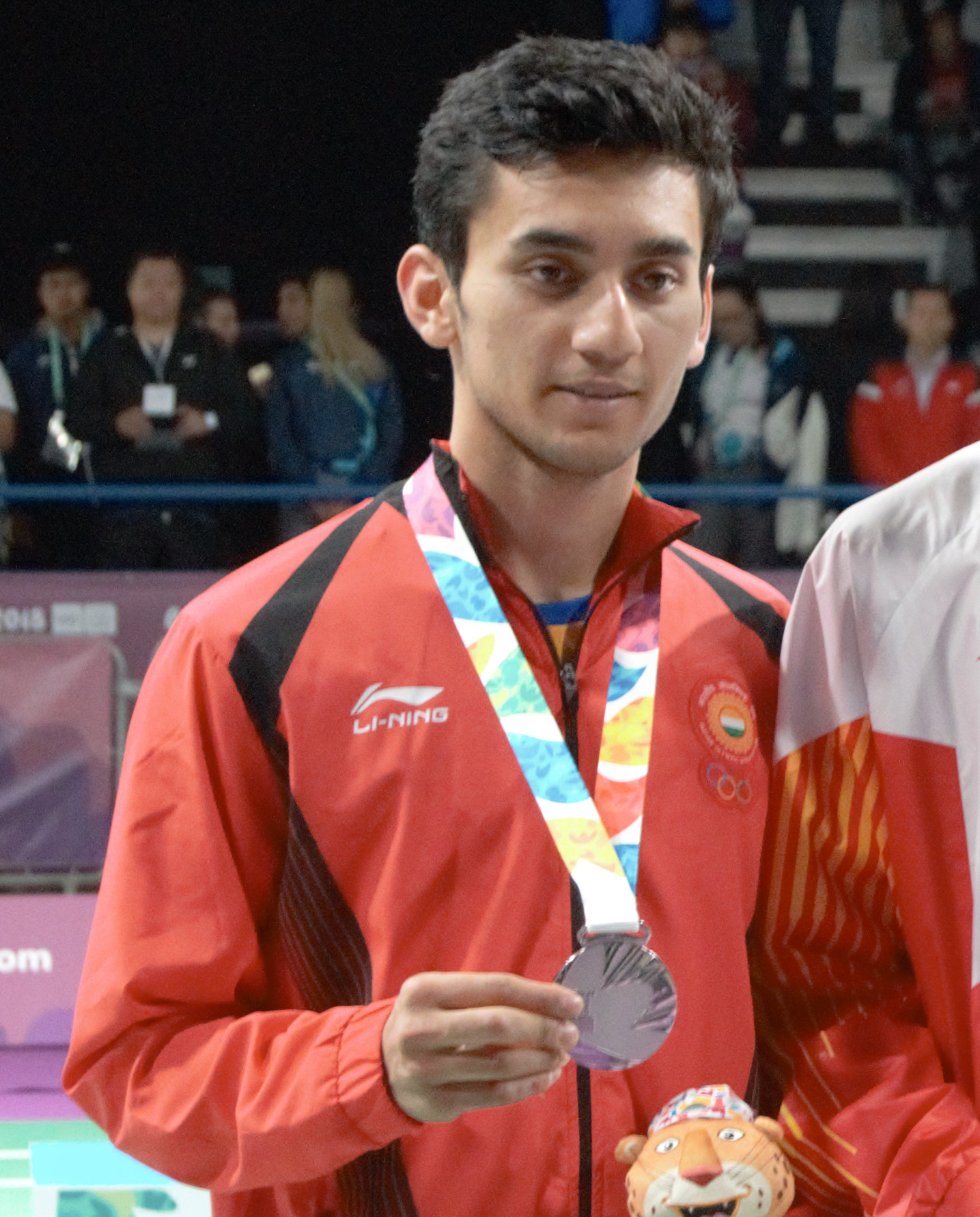 Victory ceremony of the boys singles badminton tournament of the 2018 Summer Youth Olympics.